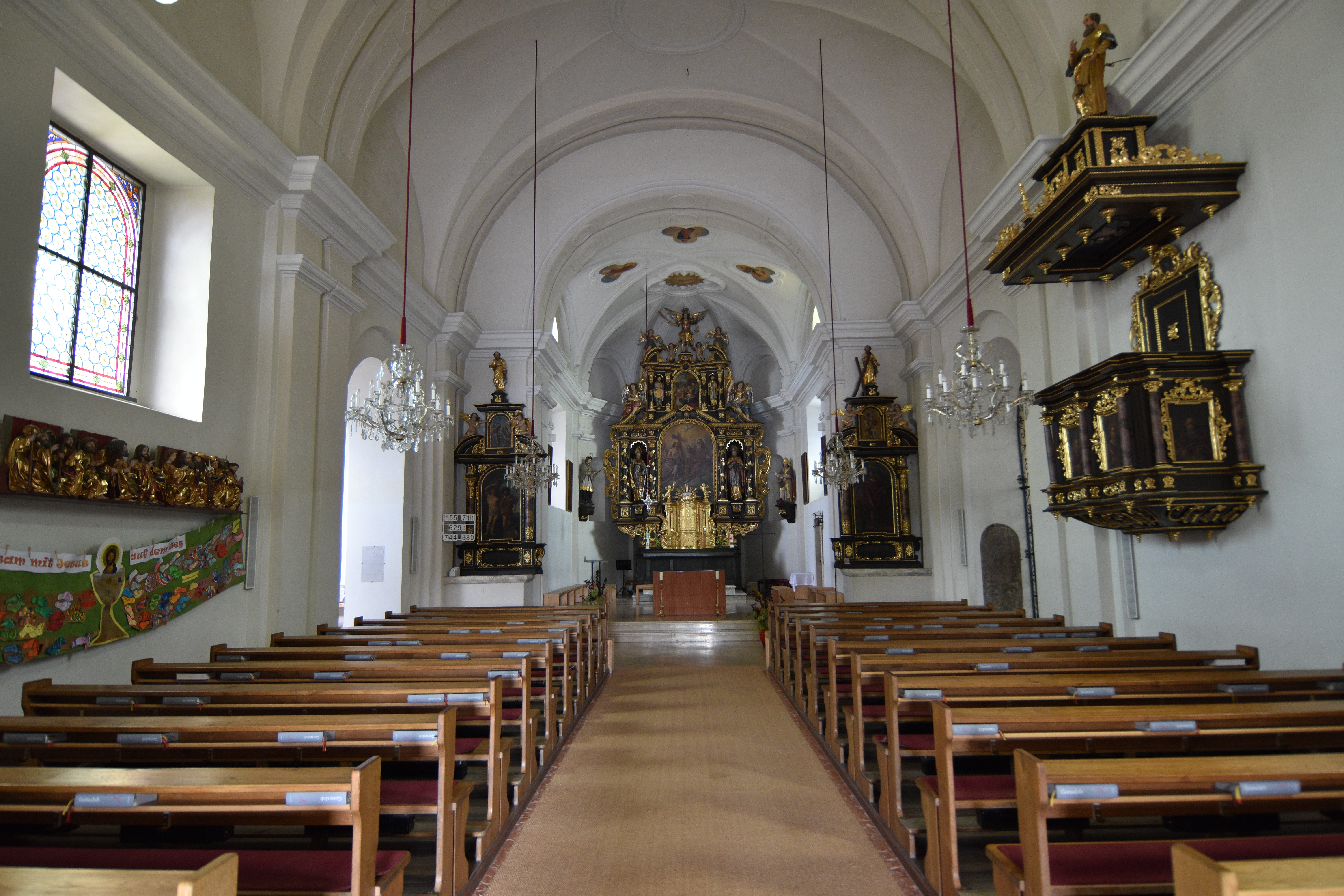 Church Heilige Dreifaltigkeit Hausmannstätten Interior